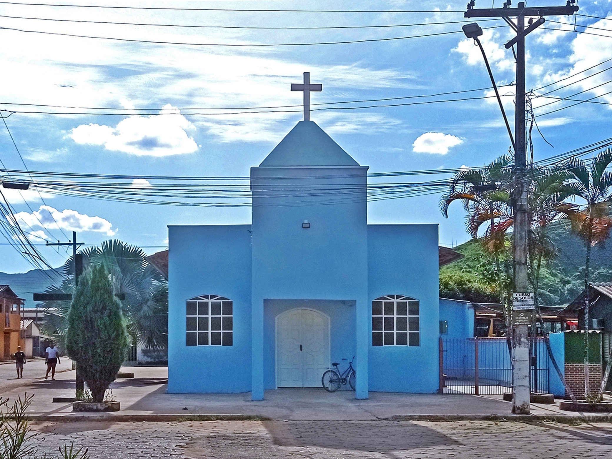 Front of the church of the Cava Grande district, in Marliéria, Minas Gerais, Brazil.